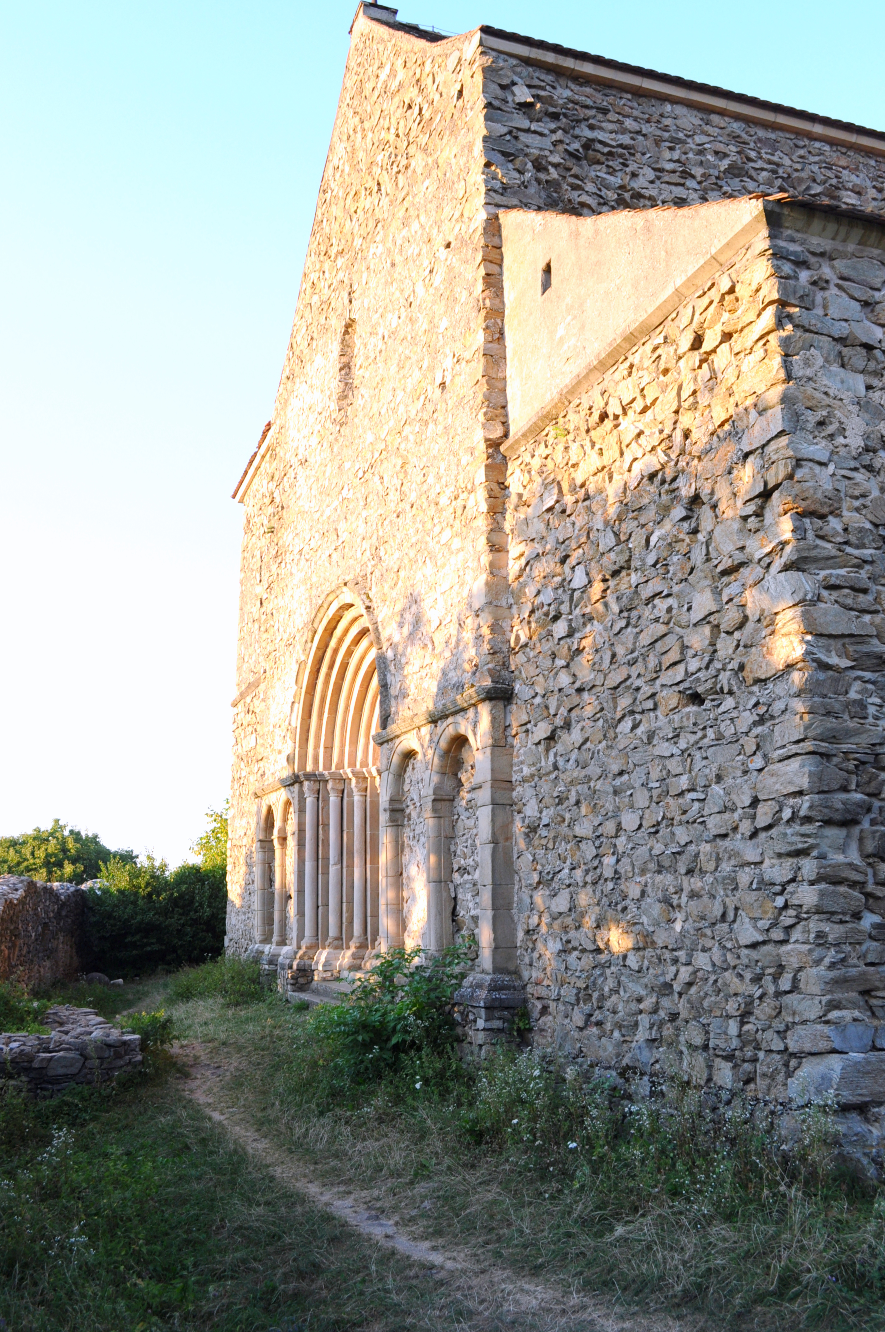 The Ensemble of The ”Saint Michael” Lutheran church in CisnădioaraRomână: Ansamblul bisericii evanghelice „Sf.Mihail” din Cisnădioara